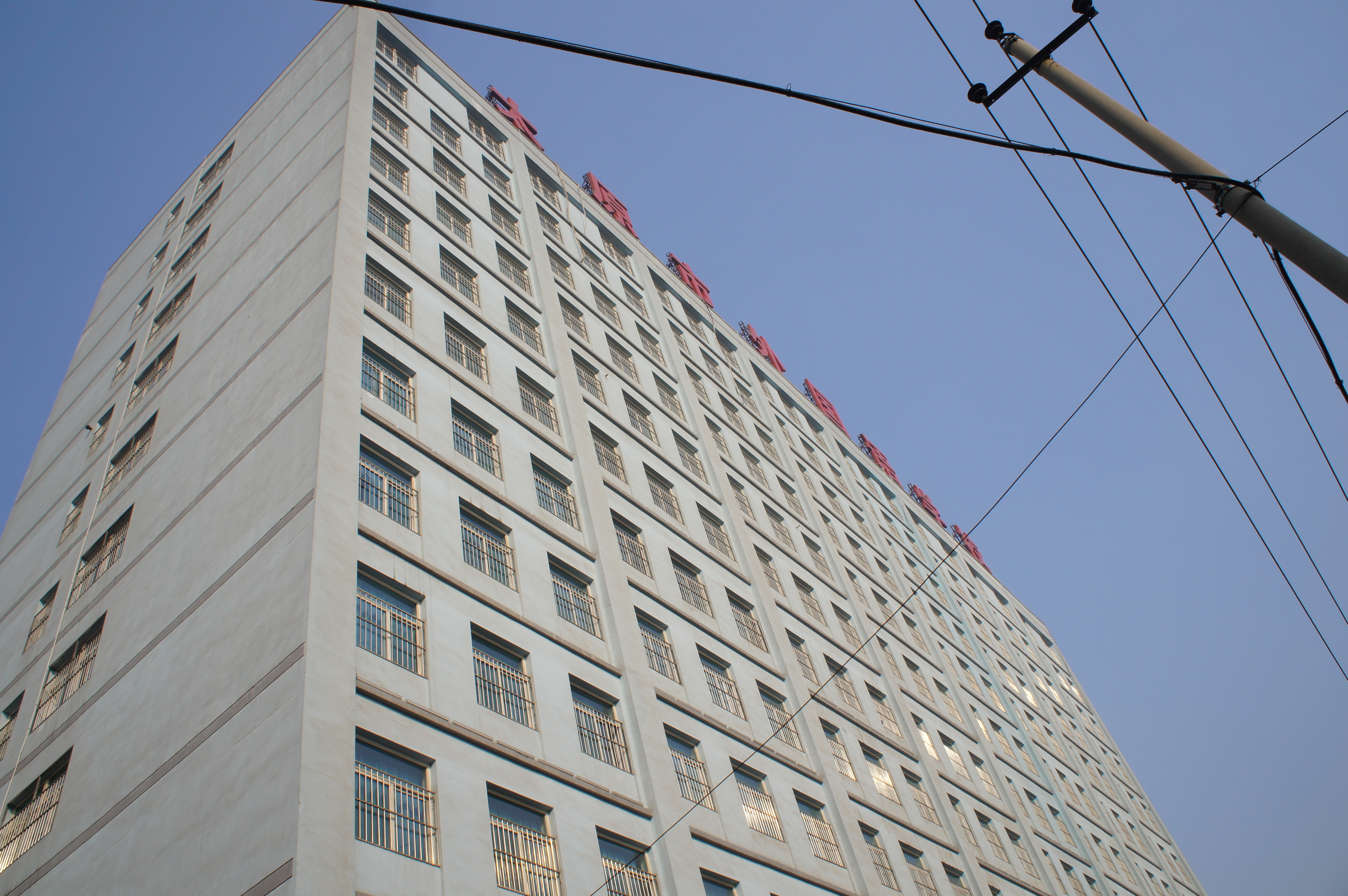 Senior High School Section of Taiyuan Foreign Language School